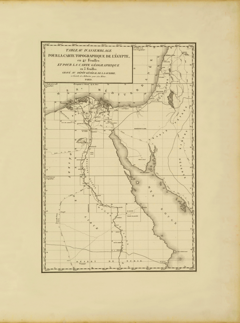 Egypt map